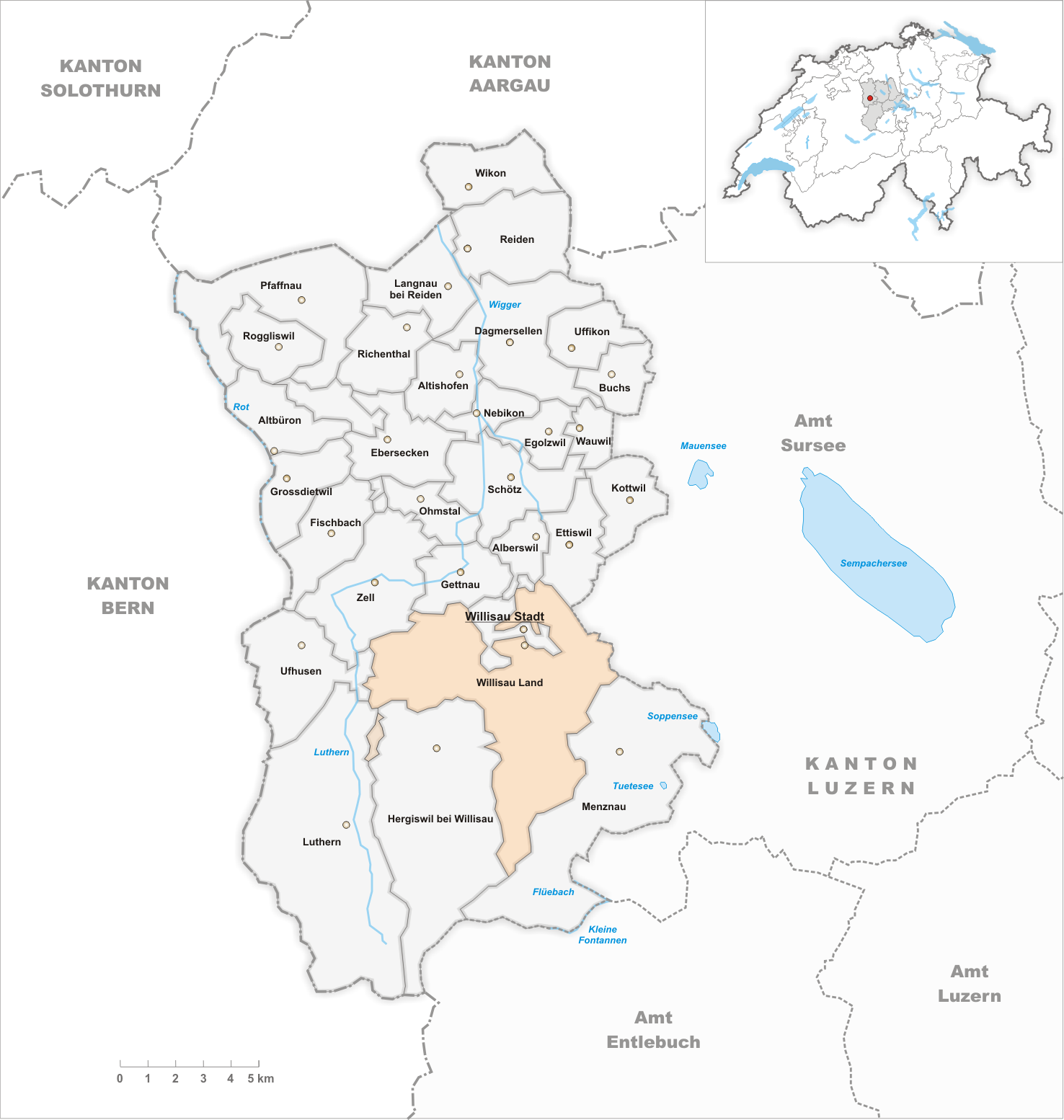 Municipality Willisau Land Artist: Tschubby